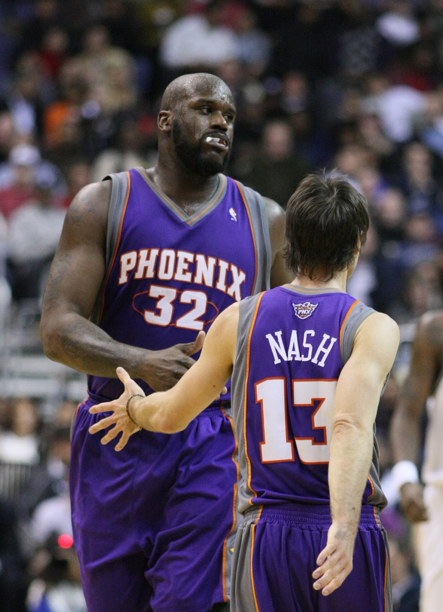 Steve Nash and Shaq